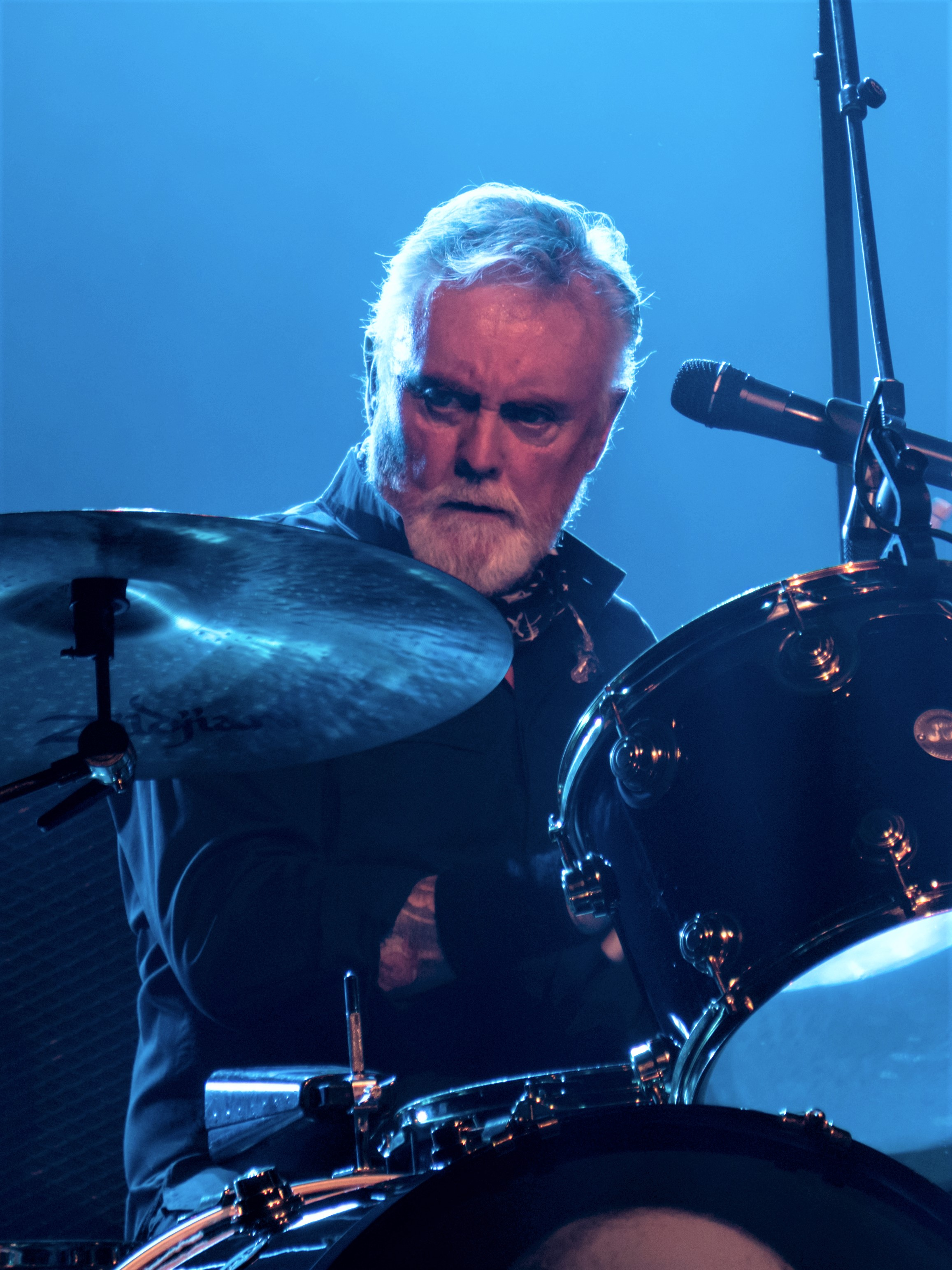 A cropped version of File:Queen And Adam Lambert - The O2 - Tuesday 12th December 2017 QueenO2121217-47 (39066610085).jpg